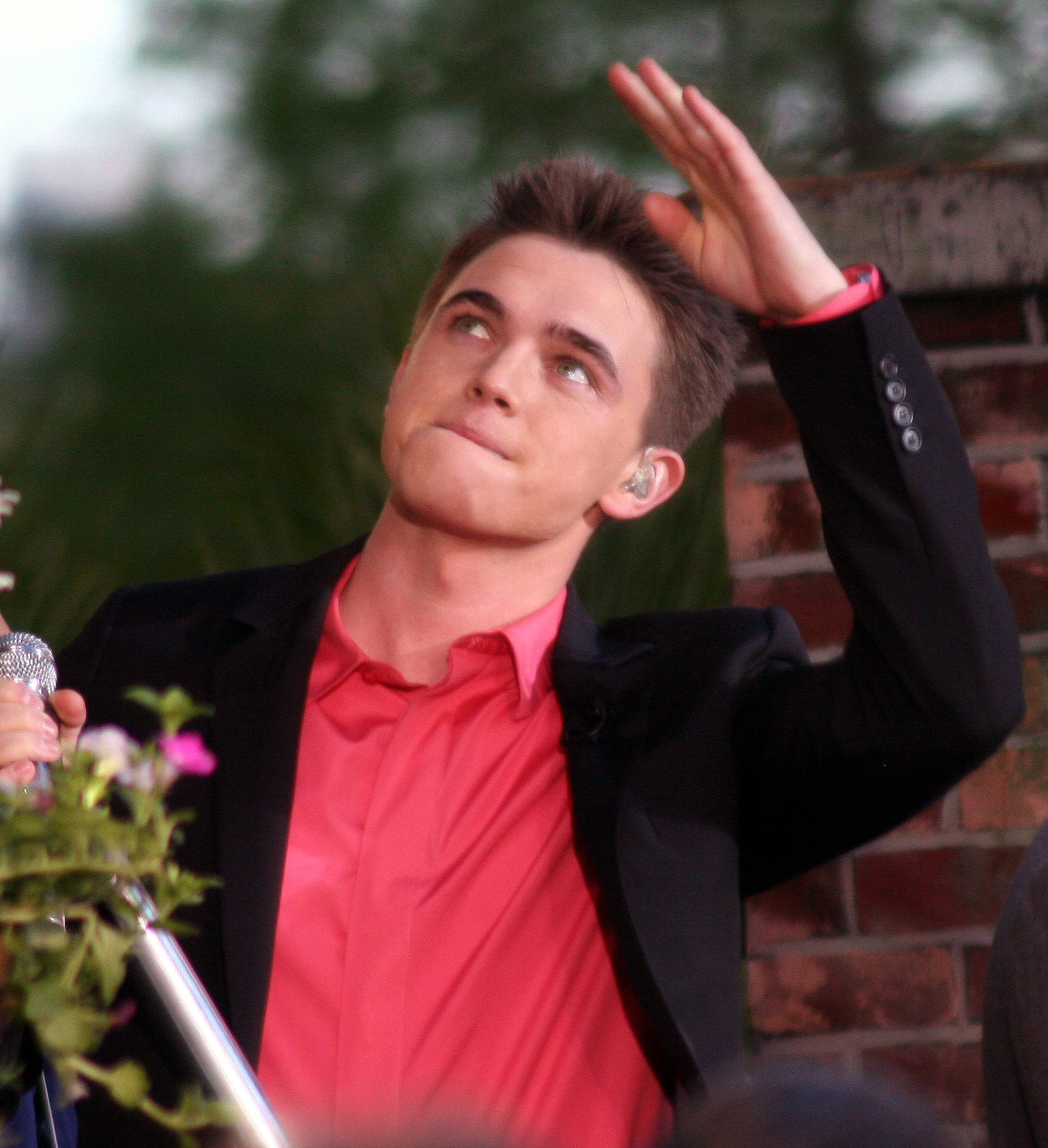 Jesse McCartney acknowledges fans after performance on the "Regis & Kelly Live" television show, April 7, 2009.